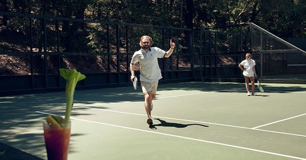 Tennis and a bloody mary are a tradition at the neighborhood park